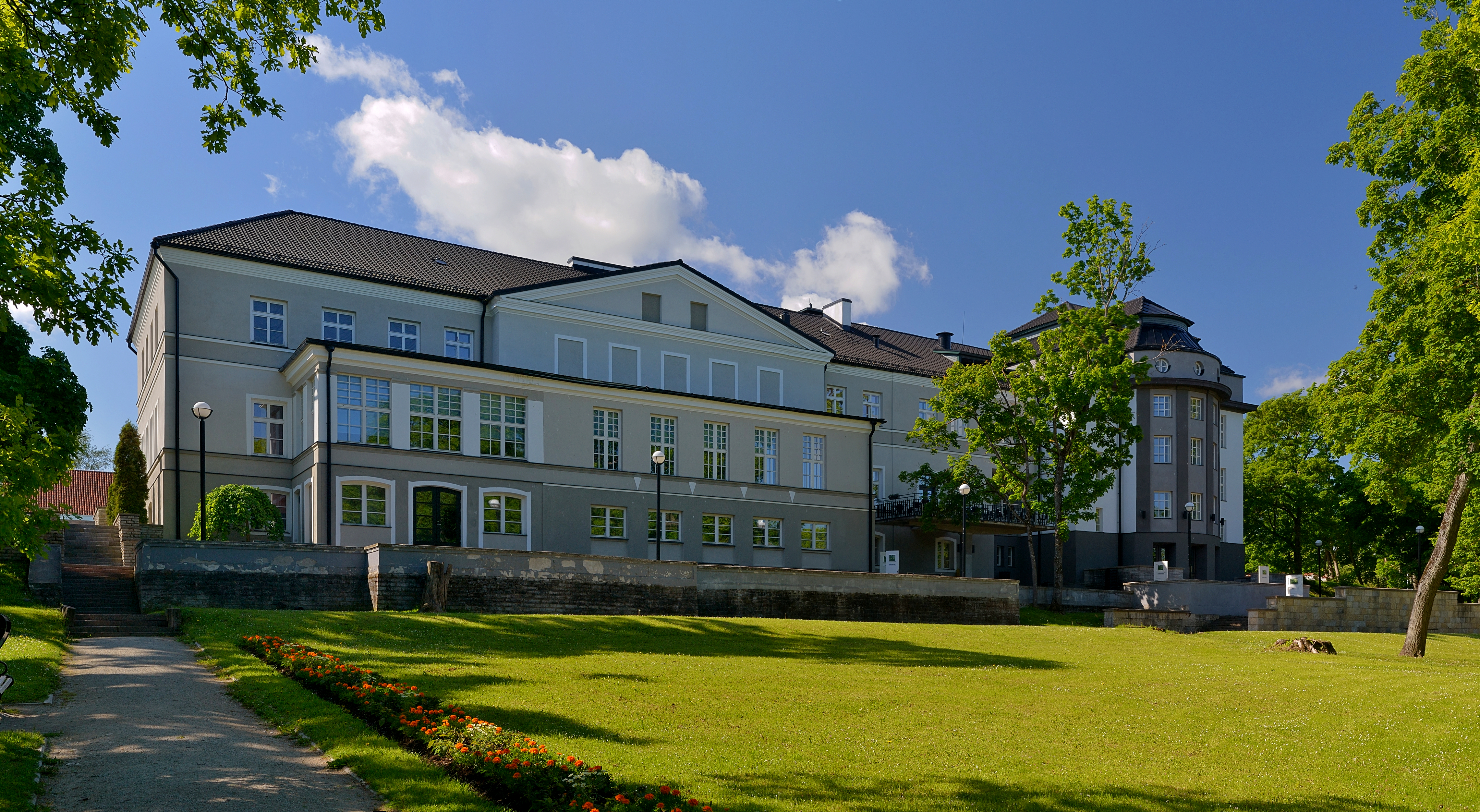 Rakvere manor main building and theater